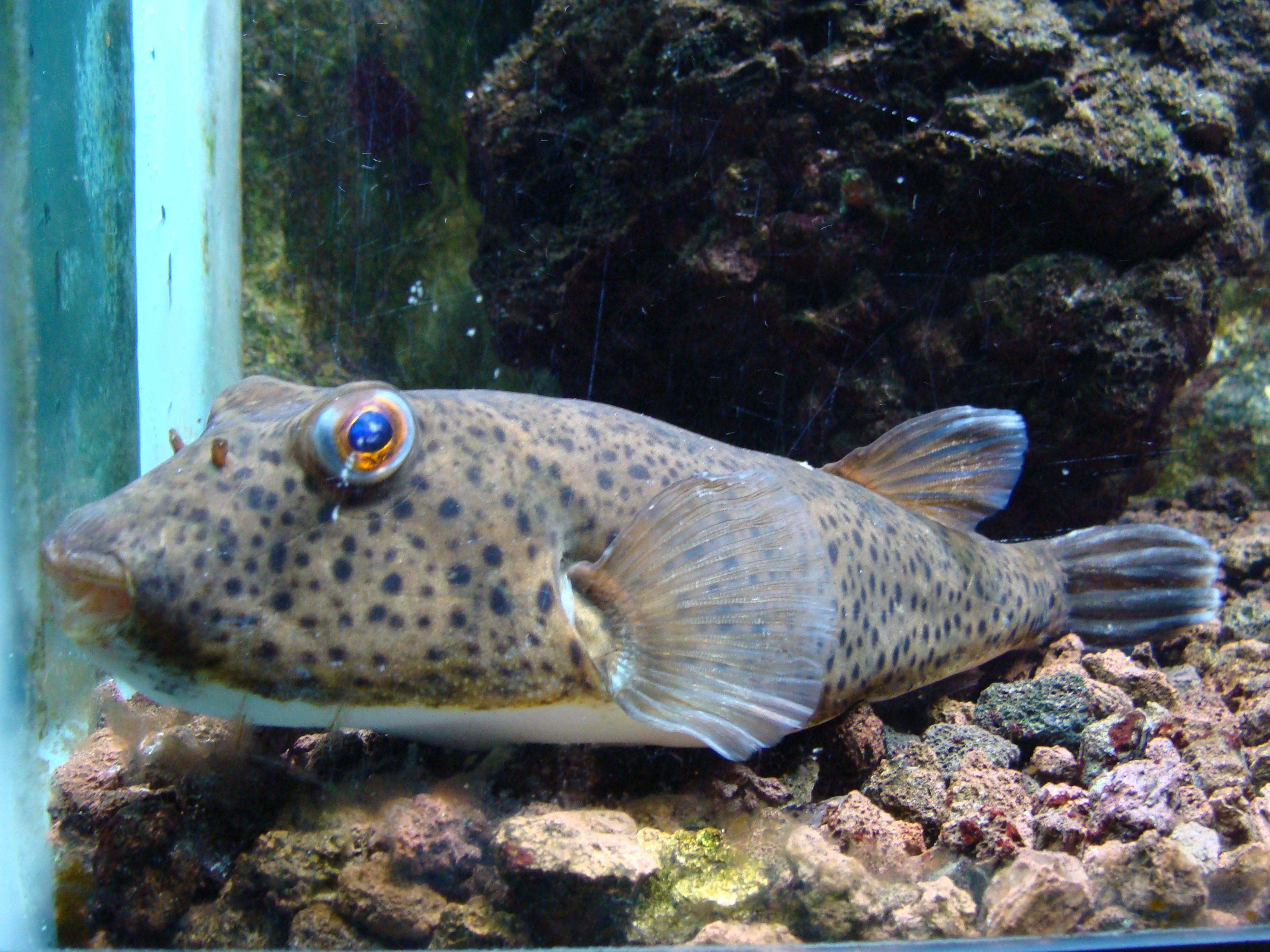 Sphoeroides marmoratus (Guinean puffer) in the Zoo de Madrid, Spain.